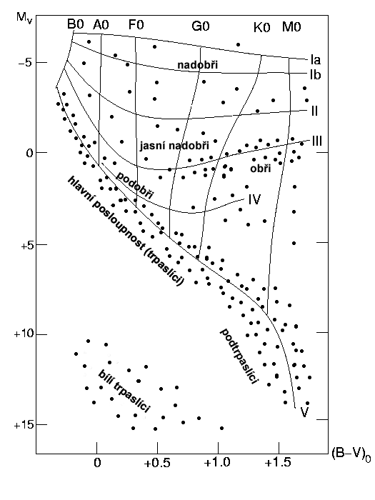 Diagram for Hertzsprung-Russell diagram.